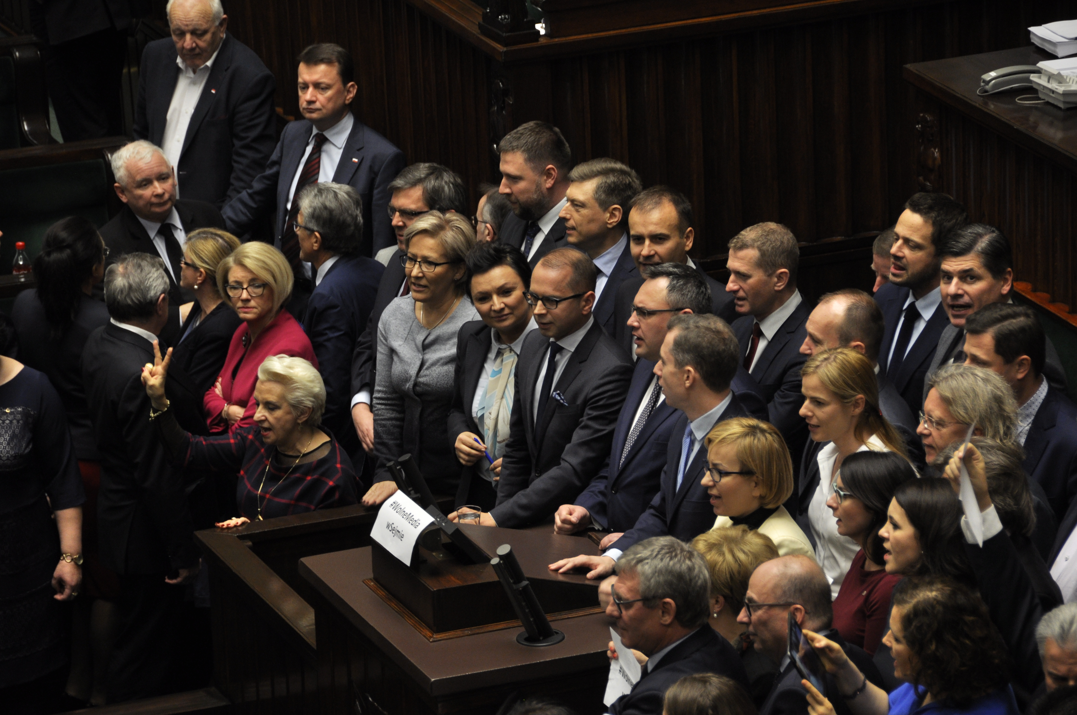 Protest of the opposition MPs during 33rd sitting of the Sejm of the Republic of Poland